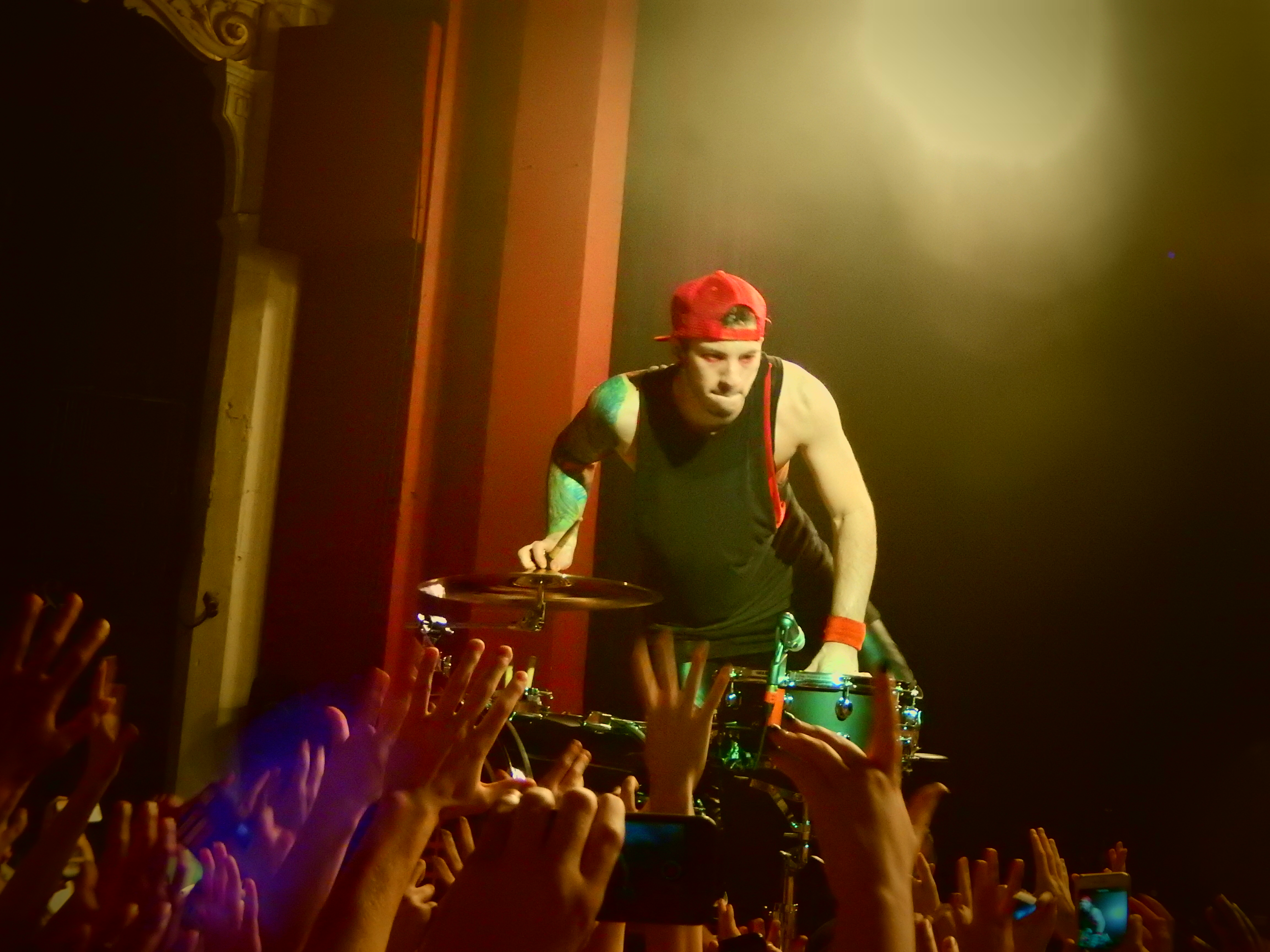 Twenty One Pilots, Shepherds Bush Empire, London